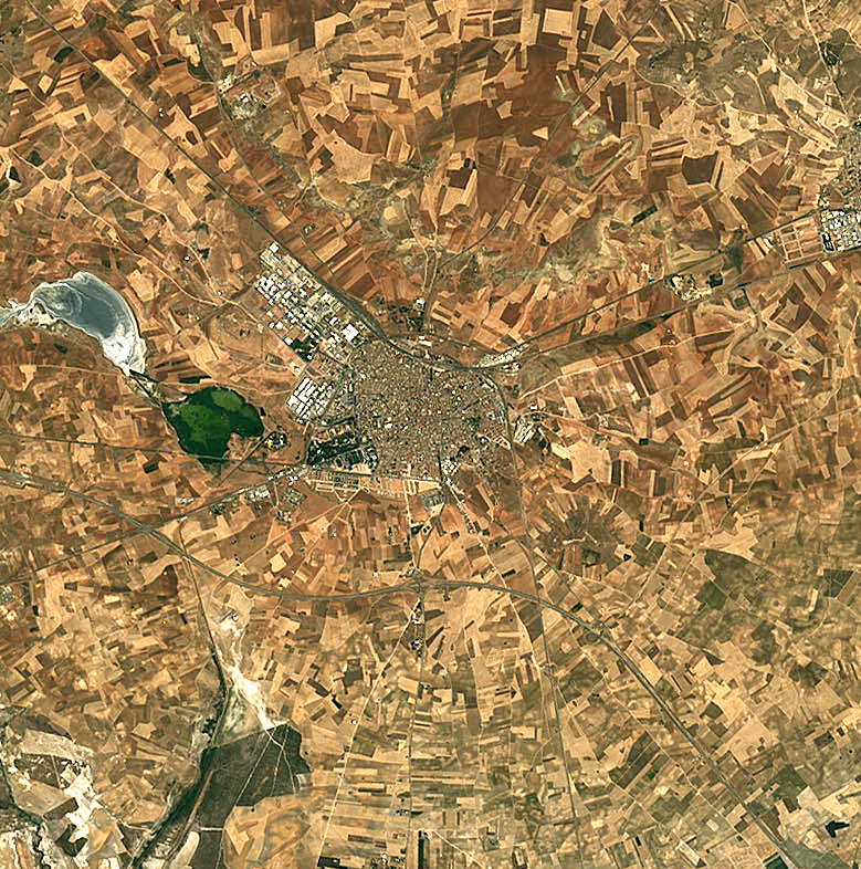 Observational Data courtesy of Landsat 8 satellite (Bands: 2, 3, 4, 8) & USGS. Data processed by Paul Quast. Data Specifications: Coordinates: 38.8807, -4.2337. Acquired: 25-July-2016 (Entity ID: LC82010332016207LGN00, Path: 201, Row: 33). Features of interest: Ciudad Real Central Airport (Abandoned Airport) [Middle]. Parque Natural Sierra de Cardena y Montoro [Bottom-Middle]. Puertollano [Middle]. Sierra Morena Mountain [Bottom-Middle]. Toledo (Outskirts) [Top-Middle].